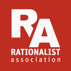 Logo of the Rationalist Association.